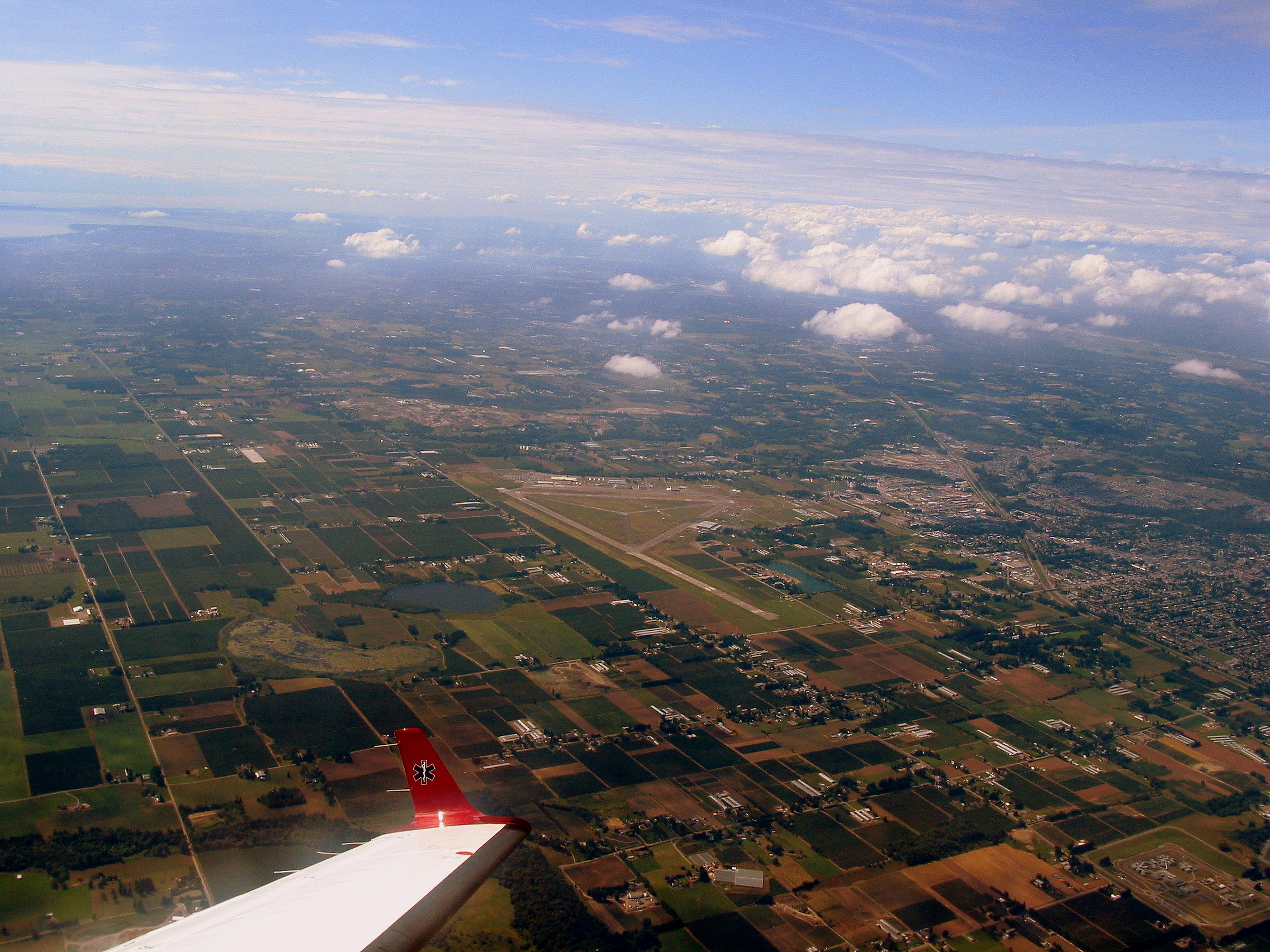 After a departure off runway 19, enroute to Fort St John.